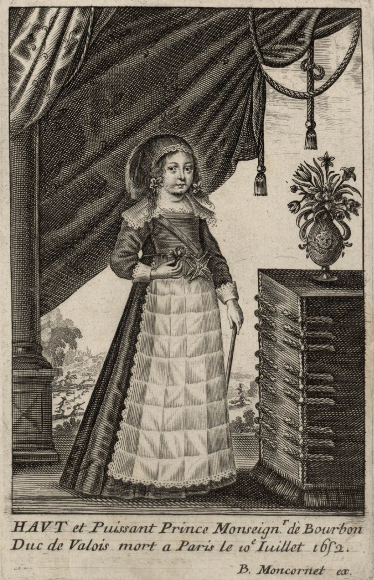 Jean Gaston, Duke of Valois, son of Gaston, Duke of Orleans. Jean lived for only 2 years.